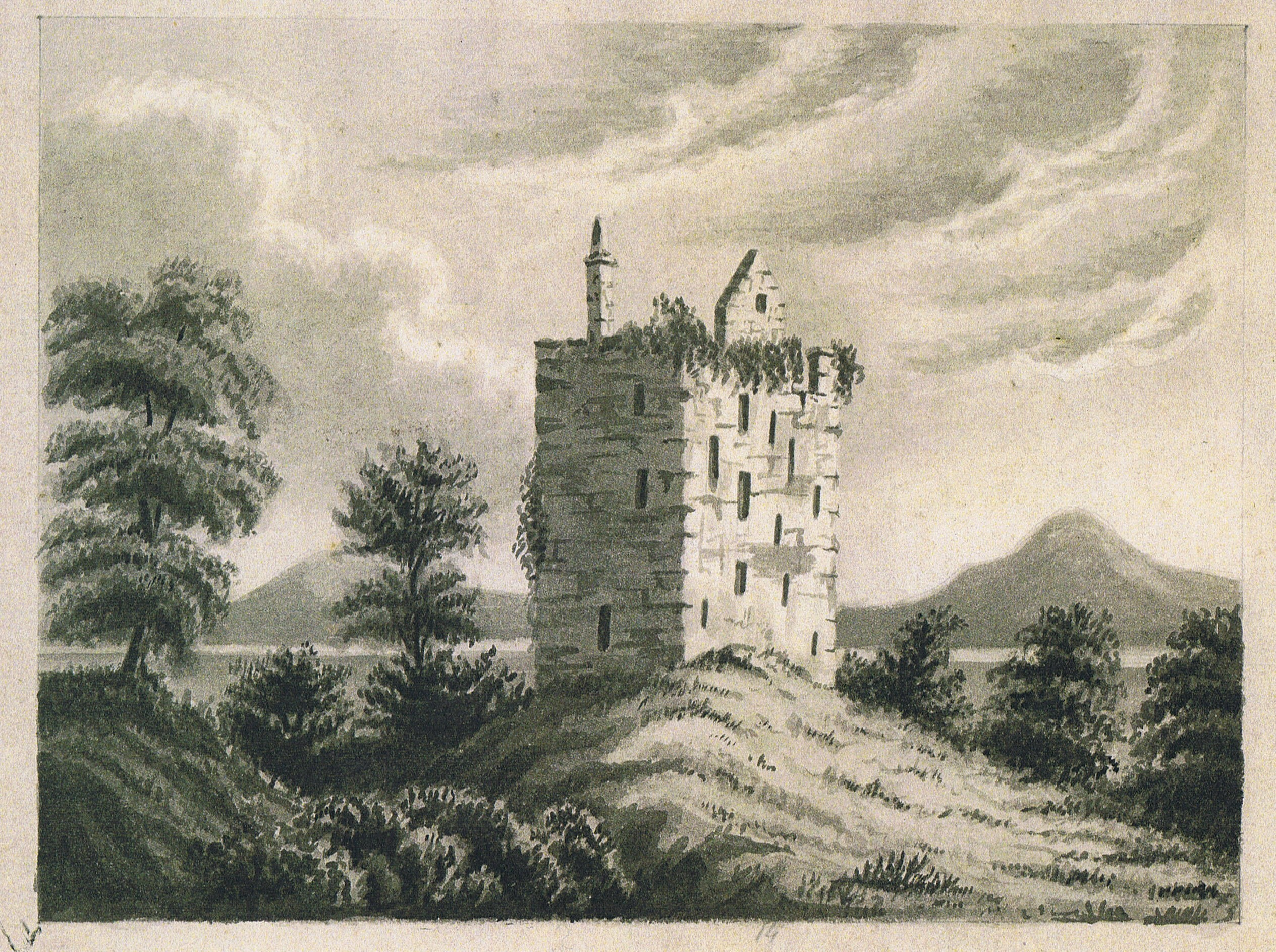 Kinnaird castle, c1820. A watercolour. Private collection, Braes of the Carse of Gowrie. scan of photocopy of original, May 2008.Rodolph (talk) 13:18, 27 May 2008 (UTC)